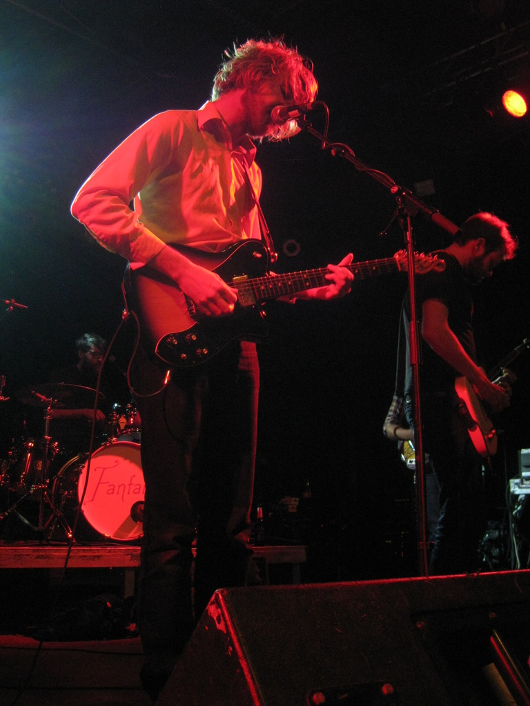 James Milne aka Lawrence Arabia, at the Fritzclub im Postbahnhof / Berlin / June 1st 2010